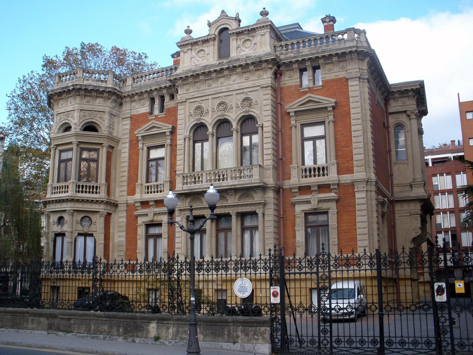 Autoridad Portuaria de Bilbao